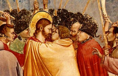 The disciple on the left, who wounds a soldier with his knife, is Saint Peter.